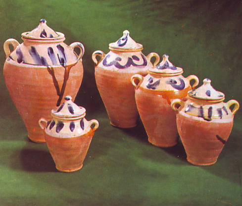 Game of earthenware "orzas". Origin: Albox, Almeria, Spain. Museum of Arts and popular customs of Seville. Original composition: Aguilar and Carretero Pérez sources. "Popular ceramics of Andalusia".